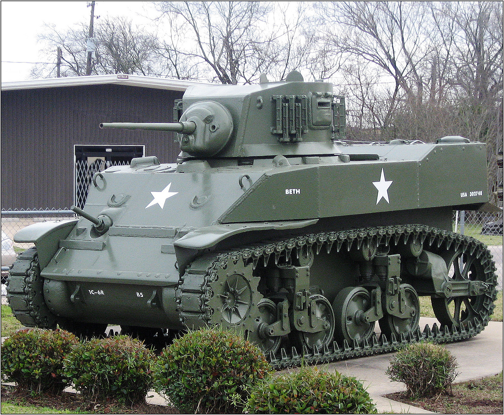 This M3 Or M5 Stuart Tank is on display in South Houston, Texas near the police and fire deparment